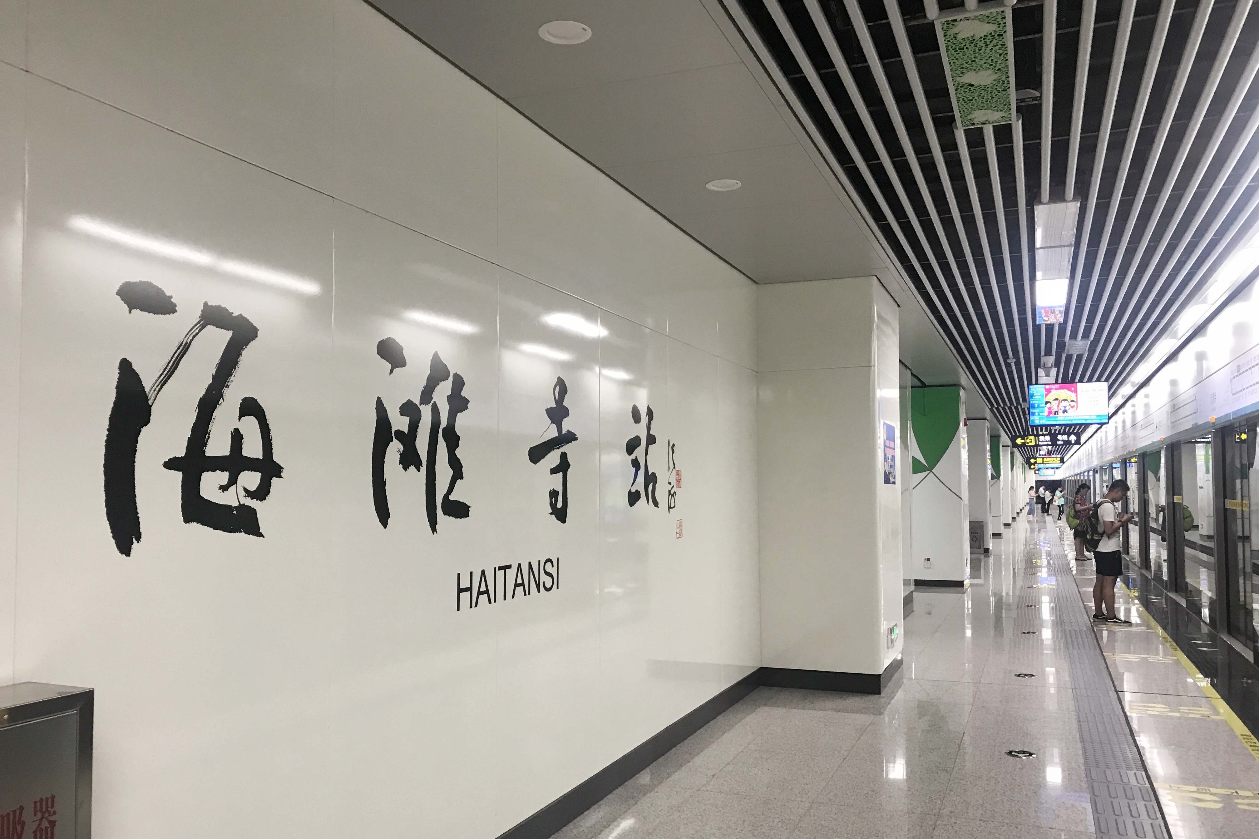 Calligraphy at Zhengzhou Metro Haitansi Station